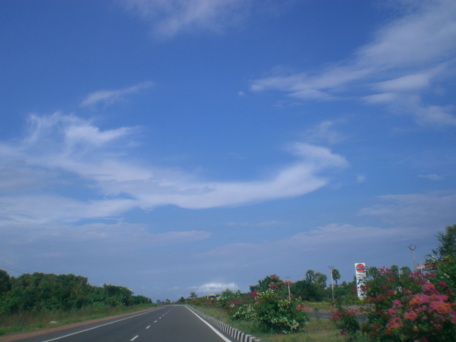 Scenic beauty of a section of the national highway, NH-5, that runs along the east coast of India. Greenery on either side and a gorgeous blue sky make for a pleasant trip.